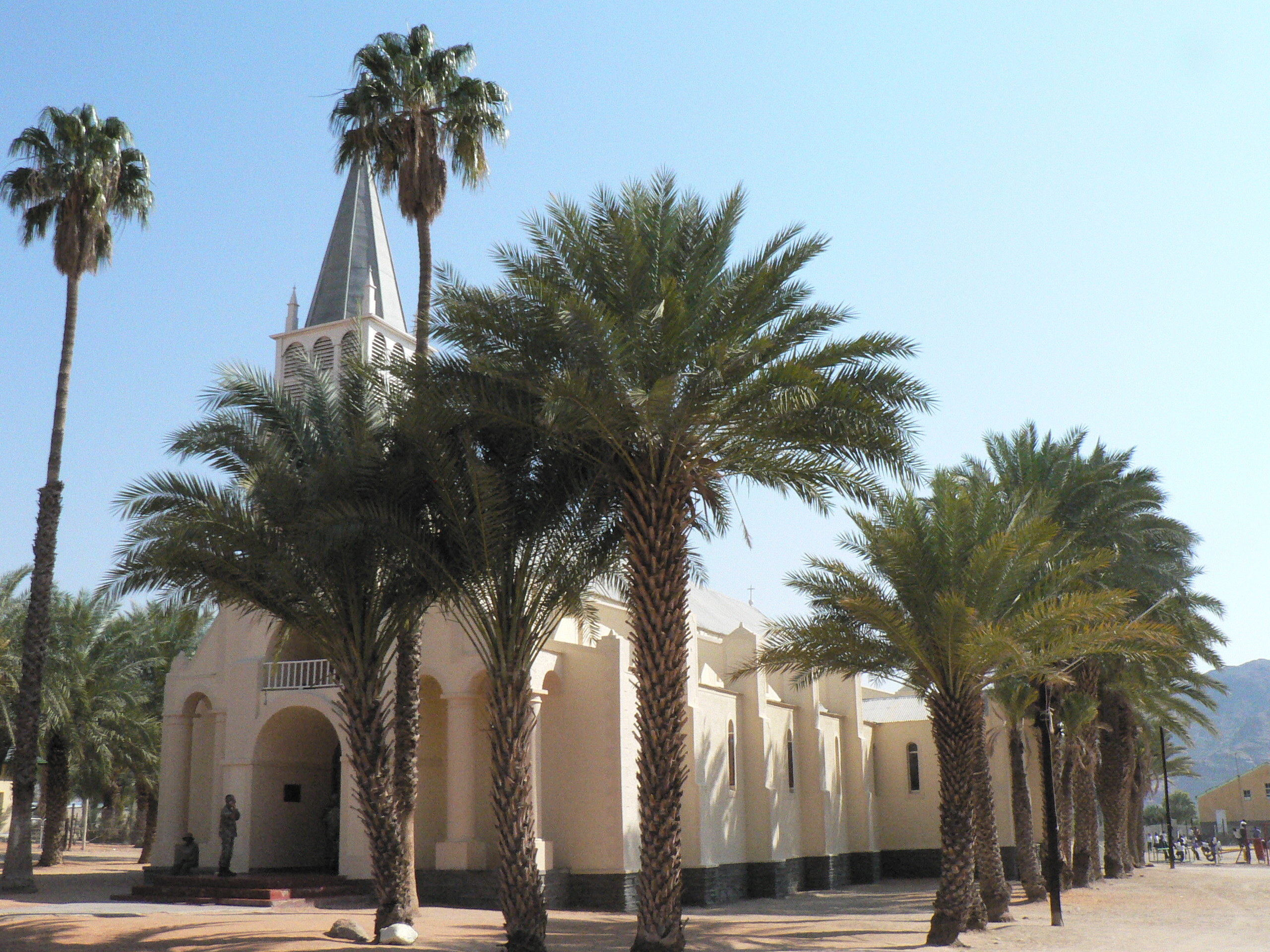 Cathedral in the desert. This media shows a South African Protected Site with SAHRA file reference 9/2/066/0018.